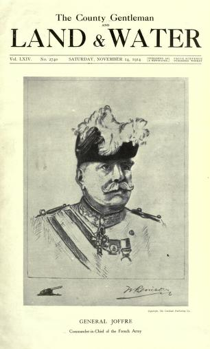 The County Gentleman and Land & Water November 14, 1914 Cover from copy at